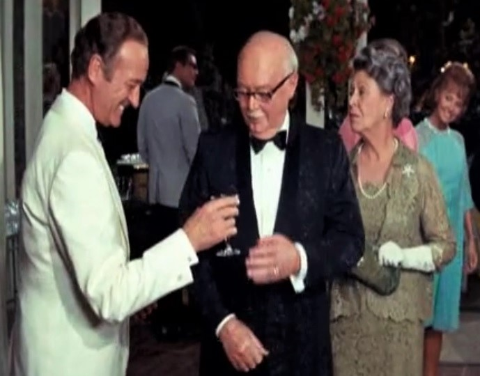 L. to R. : David Niven, Don Beddoe & Louise Lorimer in The Impossible Years - trailer (cropped screenshot)